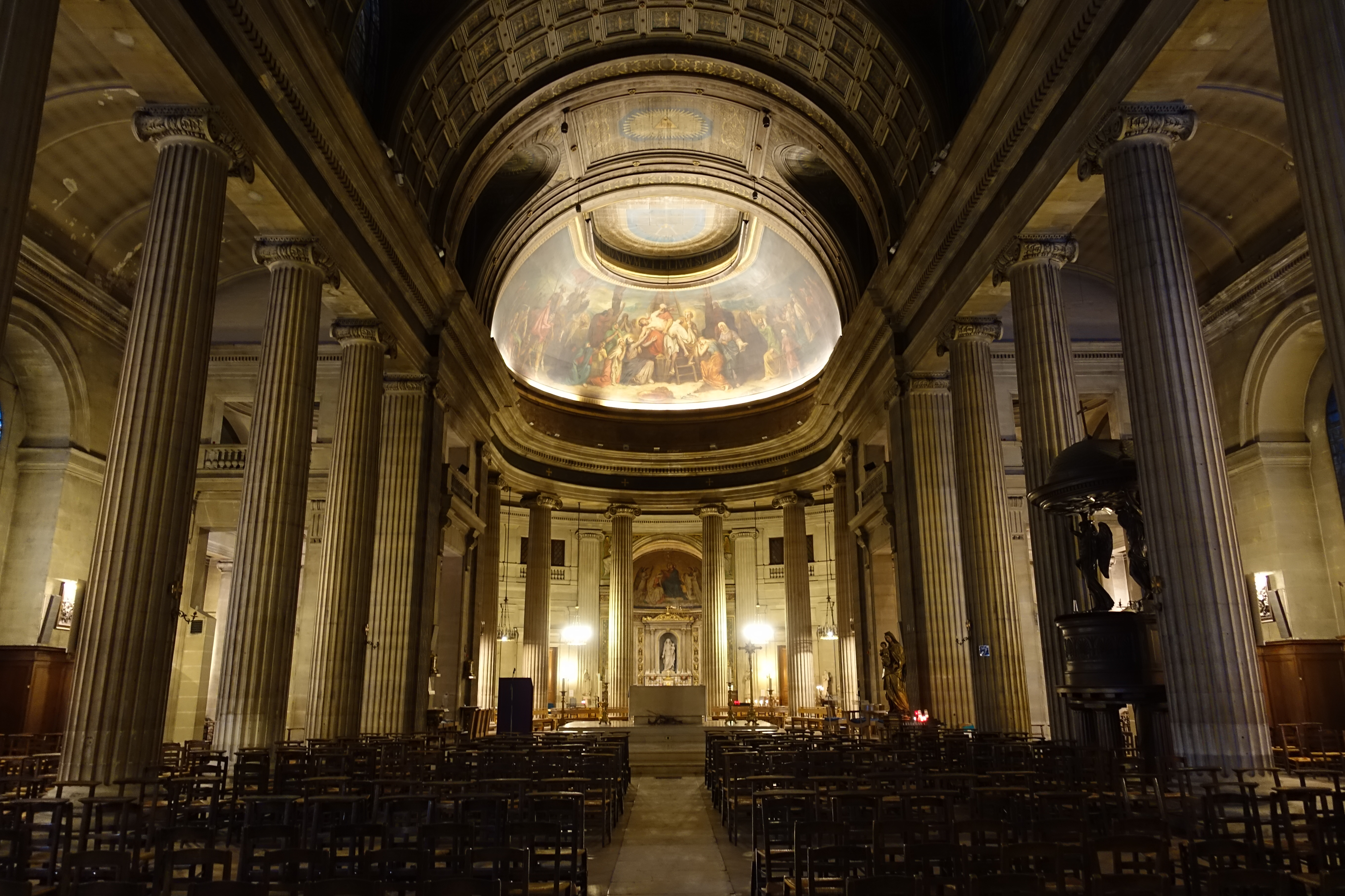 Eglise Saint-Philippe du Roule @ Paris Église Saint-Philippe-du-Roule, 9 Rue de Courcelles, 75008 Paris, France.